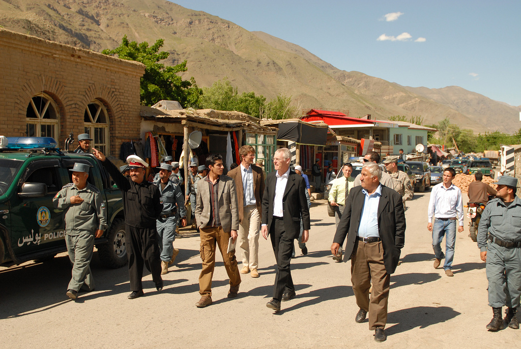 Ambassador Simon Gass, the NATO senior civilian representative, walks through the streets of Bazarak District, Afghanistan during a visit to Panjshir Province, May 3. The ambassador met with members of the Panjshir Provincial Reconstruction Team and Panjshir’s government officials to discuss the pending transition. (Photo ID: 401744)